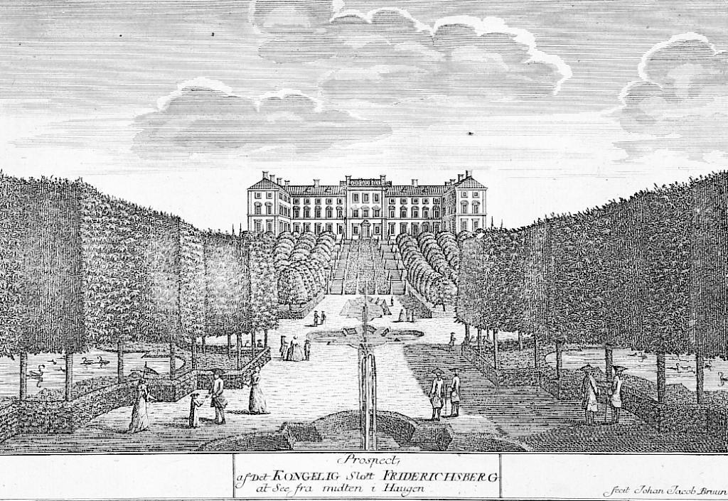 Frederiksberg Palace seen from Frederiksberg Park. Engraving executed after work by Johan Jacob Bruun